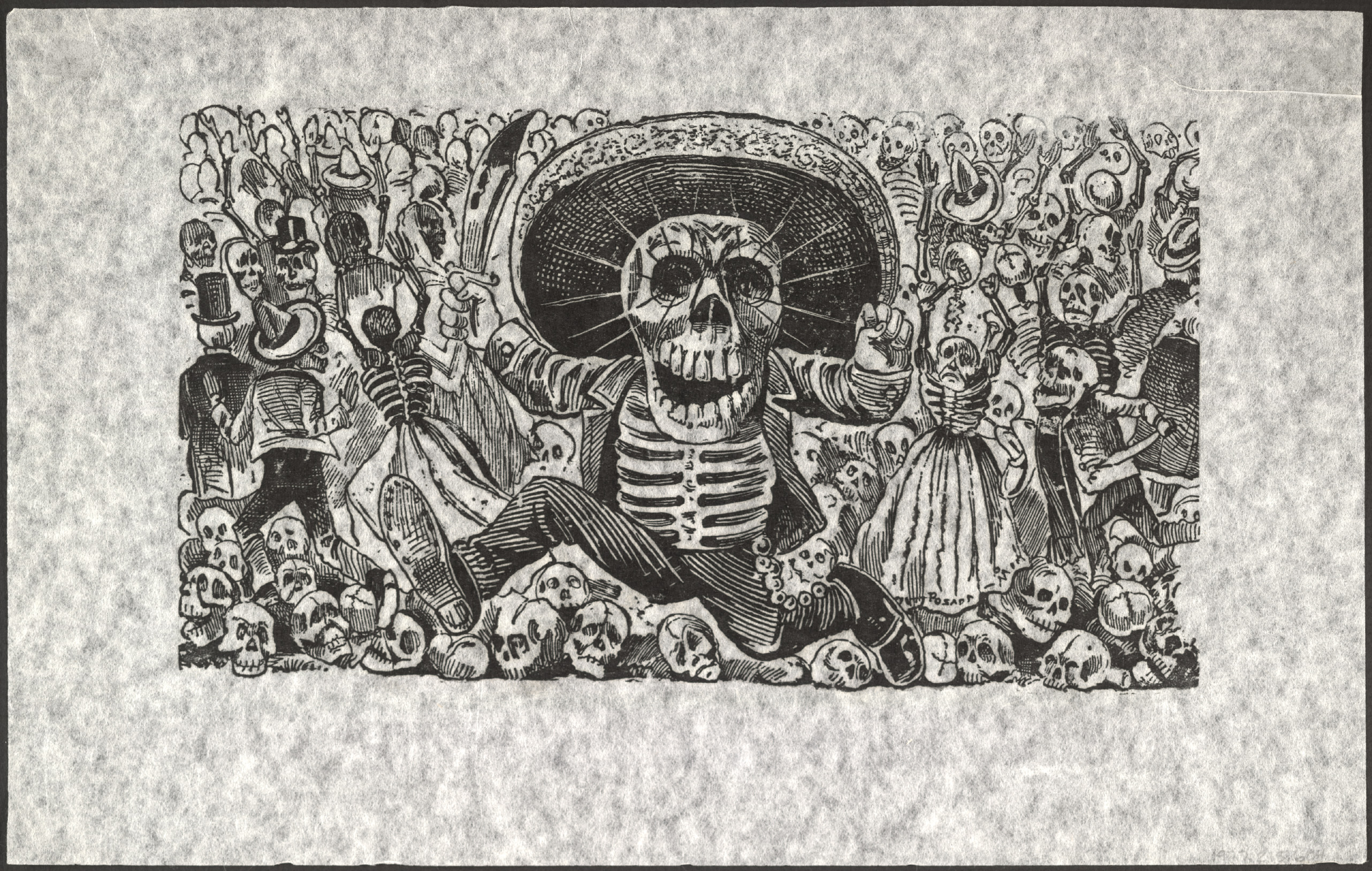 TITLE Calavera Oaxaqueña (Calavera from Oaxaca) SUMMARY Print shows fierce calavera brandishing knife, crowd of calaveras behind him. MEDIUM 1 print on white fabric : relief etching ; 21.3 x 33.8 cm. (sheet). NOTES Attributed to Antonio Vanegas Arroyo (Firm) as publisher; signed in plate lower right: Posada. :In 1910 this fierce calavera appeared in a broadside with the headline "Calaveras del montón, número 1," reproduced in Posada's Mexico / Ron Tyler. Washington, D.C. : Library of Congress, 1979, p. 268. Bequest and gift: Caroline and Erwin Swann; 1977; (DLC/PP-1977:215.604).